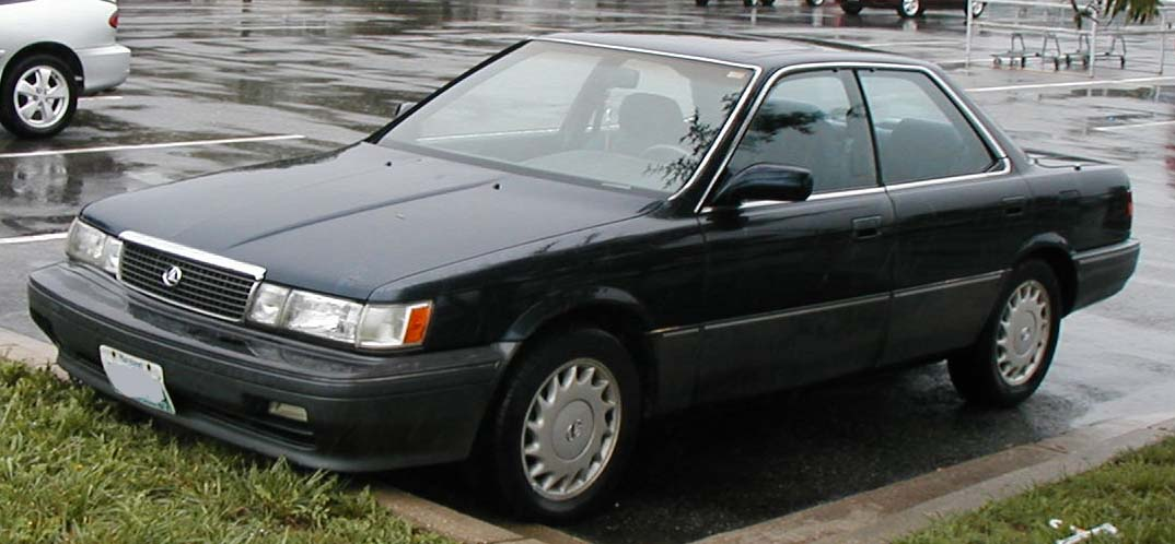 1989-1991 Lexus ES250 photographed in USA.